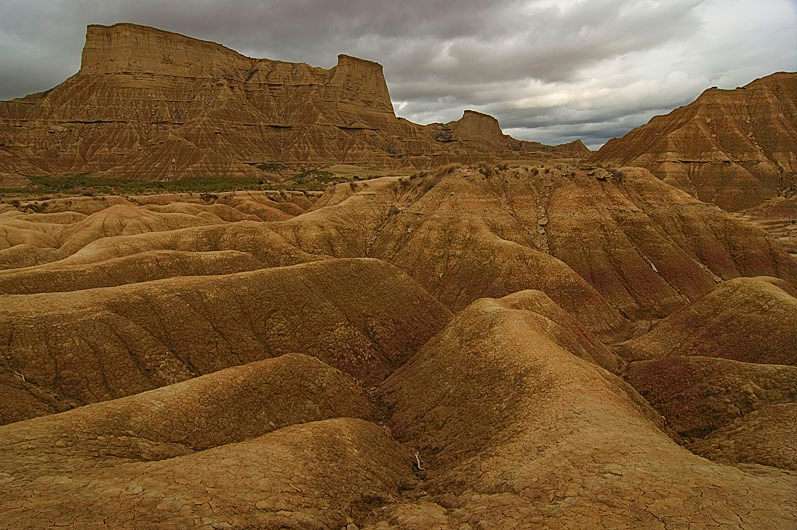 Bardenas Reales, in Navarra, Spain